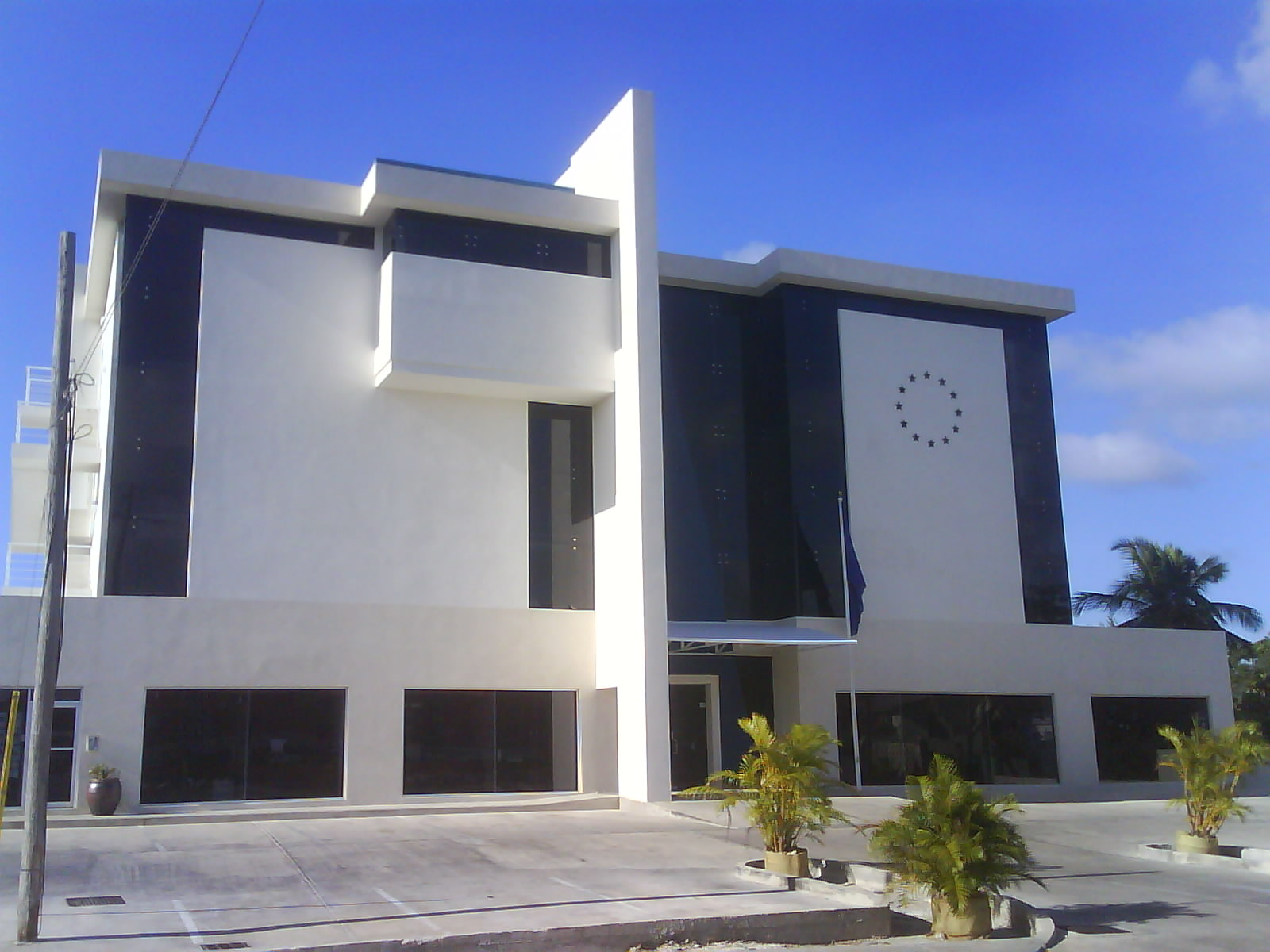 The just opened European Commission's Eastern Caribbean branch office. Located at Highway 7, Hastings, Christ Church, Barbados. (Site) (FYI: Building security told me right afterwards that building photos are not allowed. Therefore, I release this as public domain so others would not need to take their own photos.)